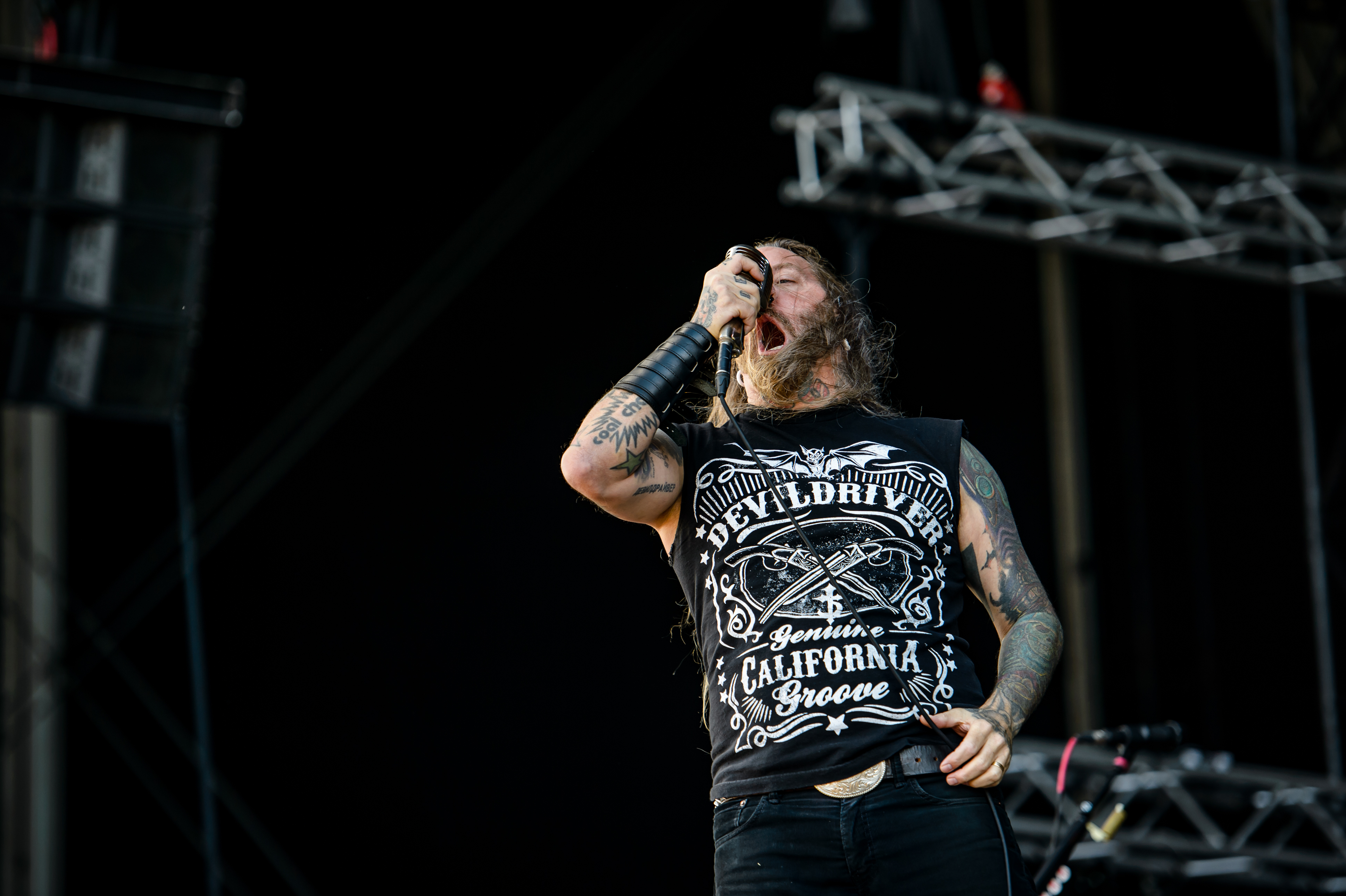 DevilDriver; Wacken Open Air 2016